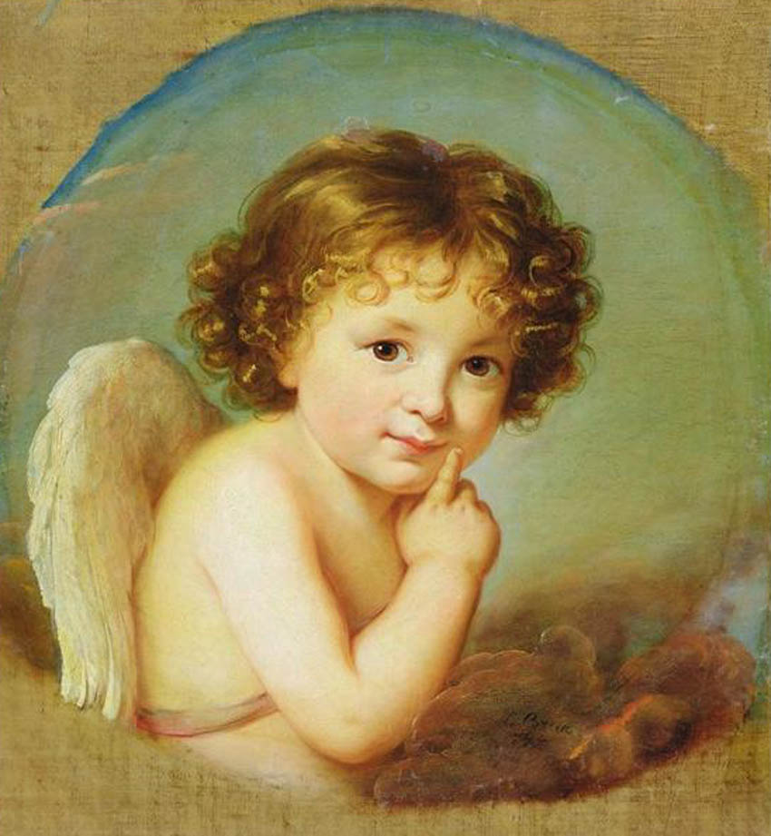 Portrait of Boris Yusupov (1794-1849) as Cupid